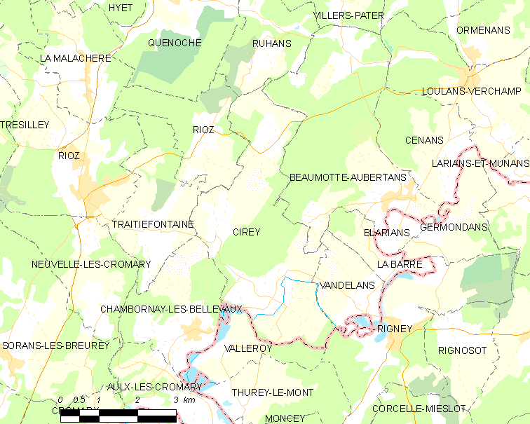 Map of French municipality